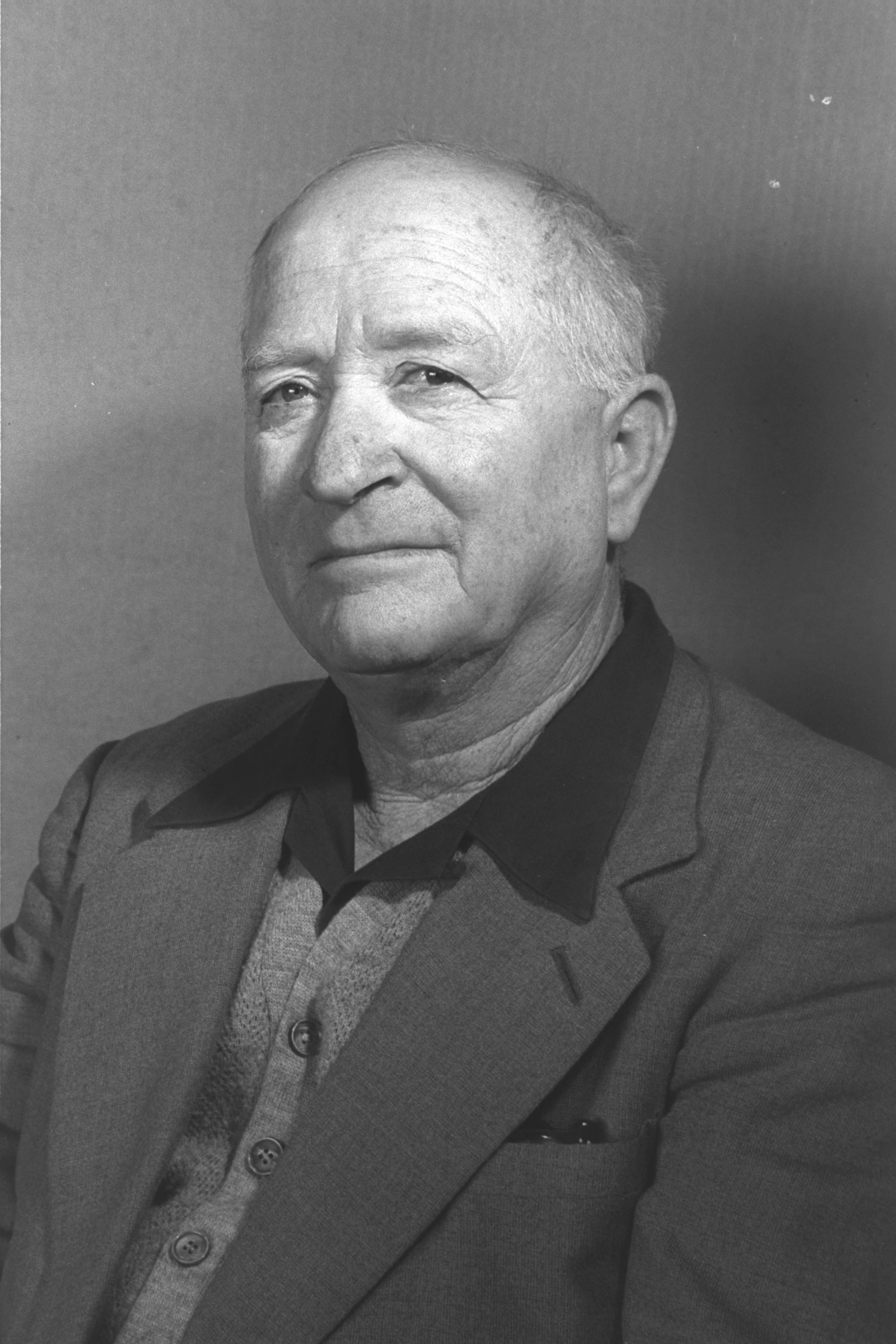 YOSSEF BARATZ - MEMBER OF FIRST KNESSET.